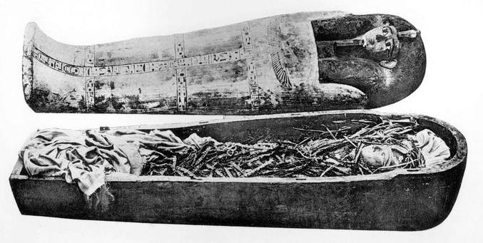 Picture of the coffin and mummy (cartonnage intact) of Amenhotep I, from Smith's The Royal Mummies.